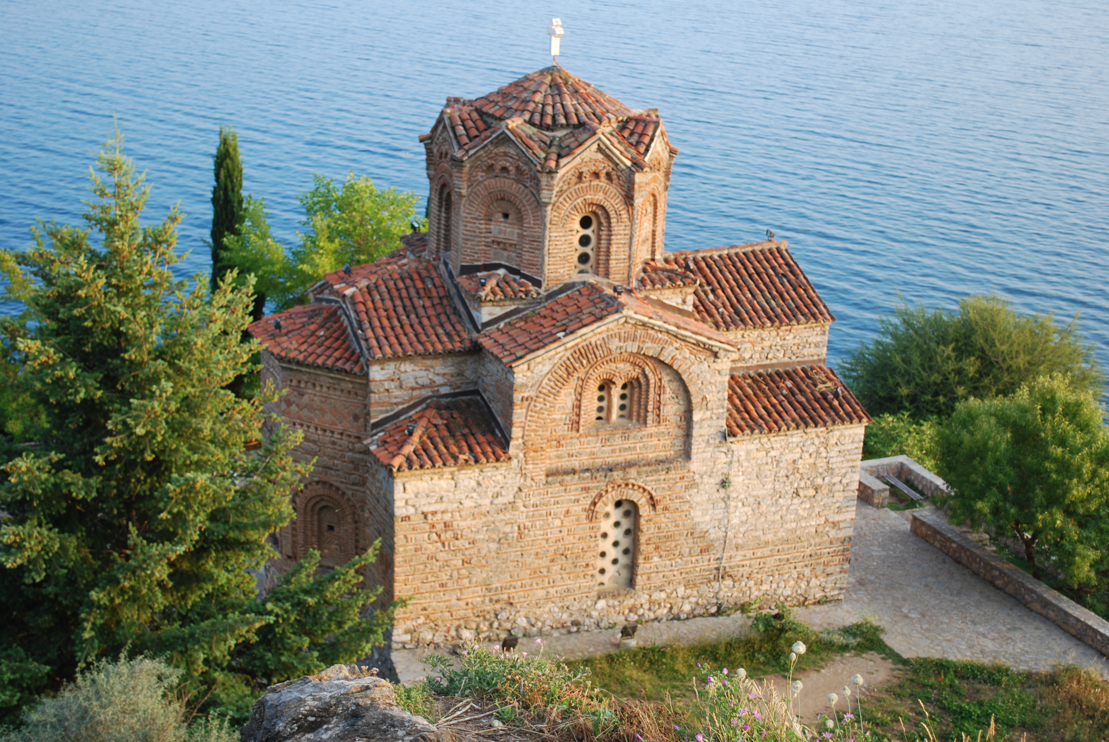 St. John Kaneo Church, Ohrid, Macedonia.